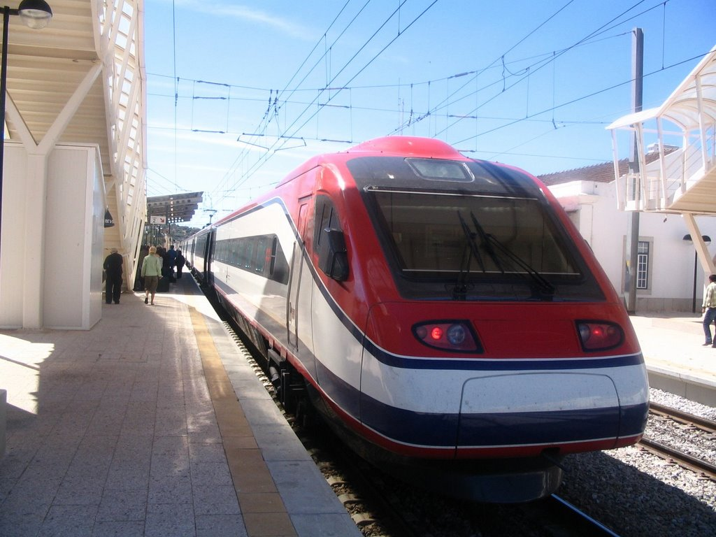 Alfa Pendular is the tilting train service along the Portuguese coastline. This train goes to Faro, but you can change here to Lagos too. See more tilting trains (and please add your photos) at my Tilting trains (Pendolinos) group!